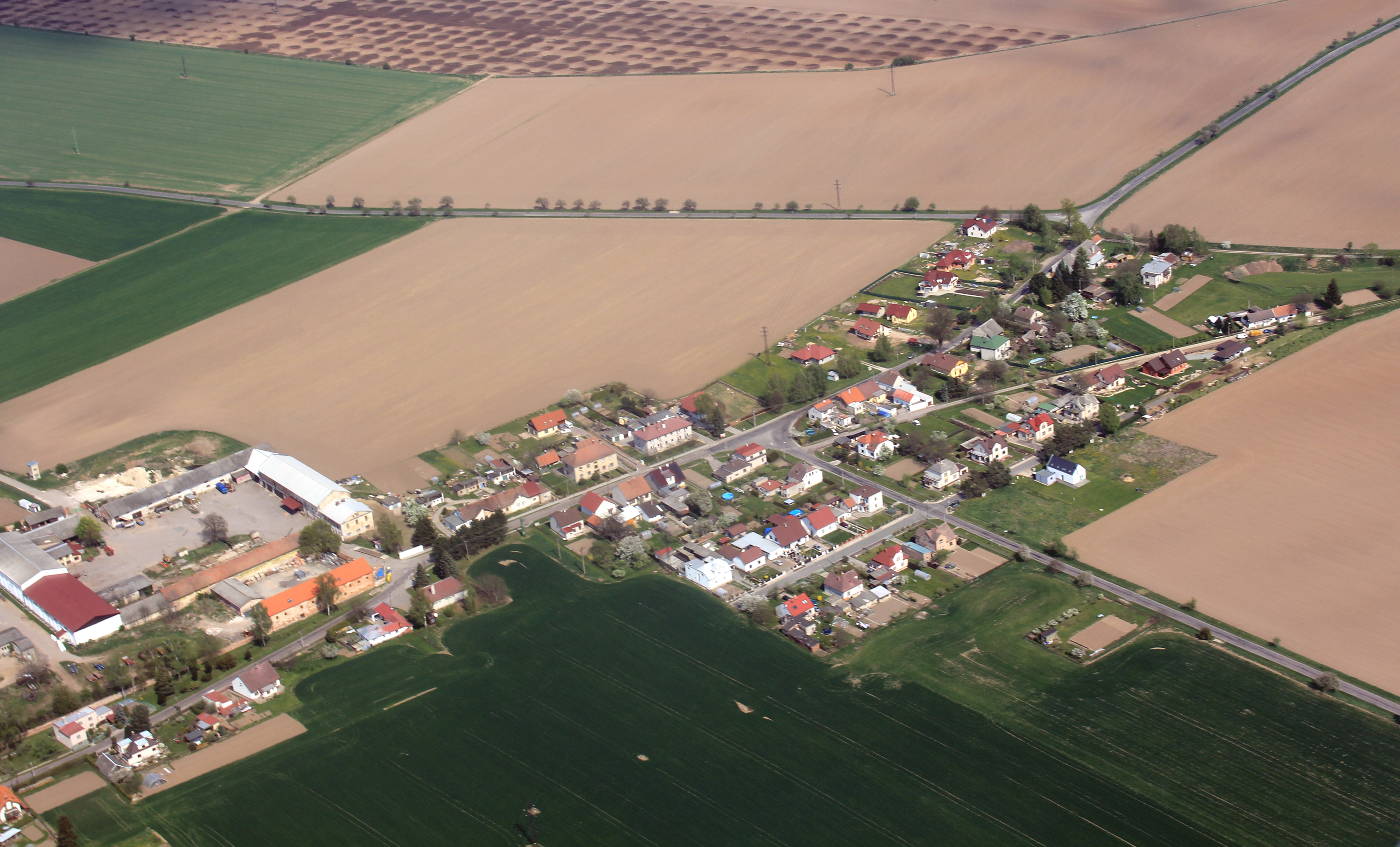 Village Světí from air, eastern Bohemia, Czech Republic